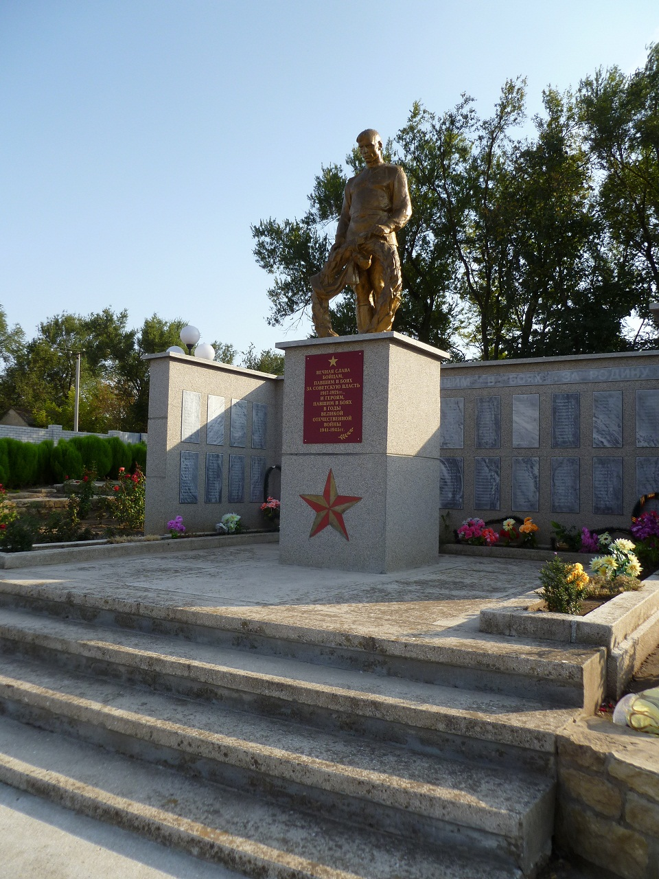 Памятник в Селе Малые Ягуры